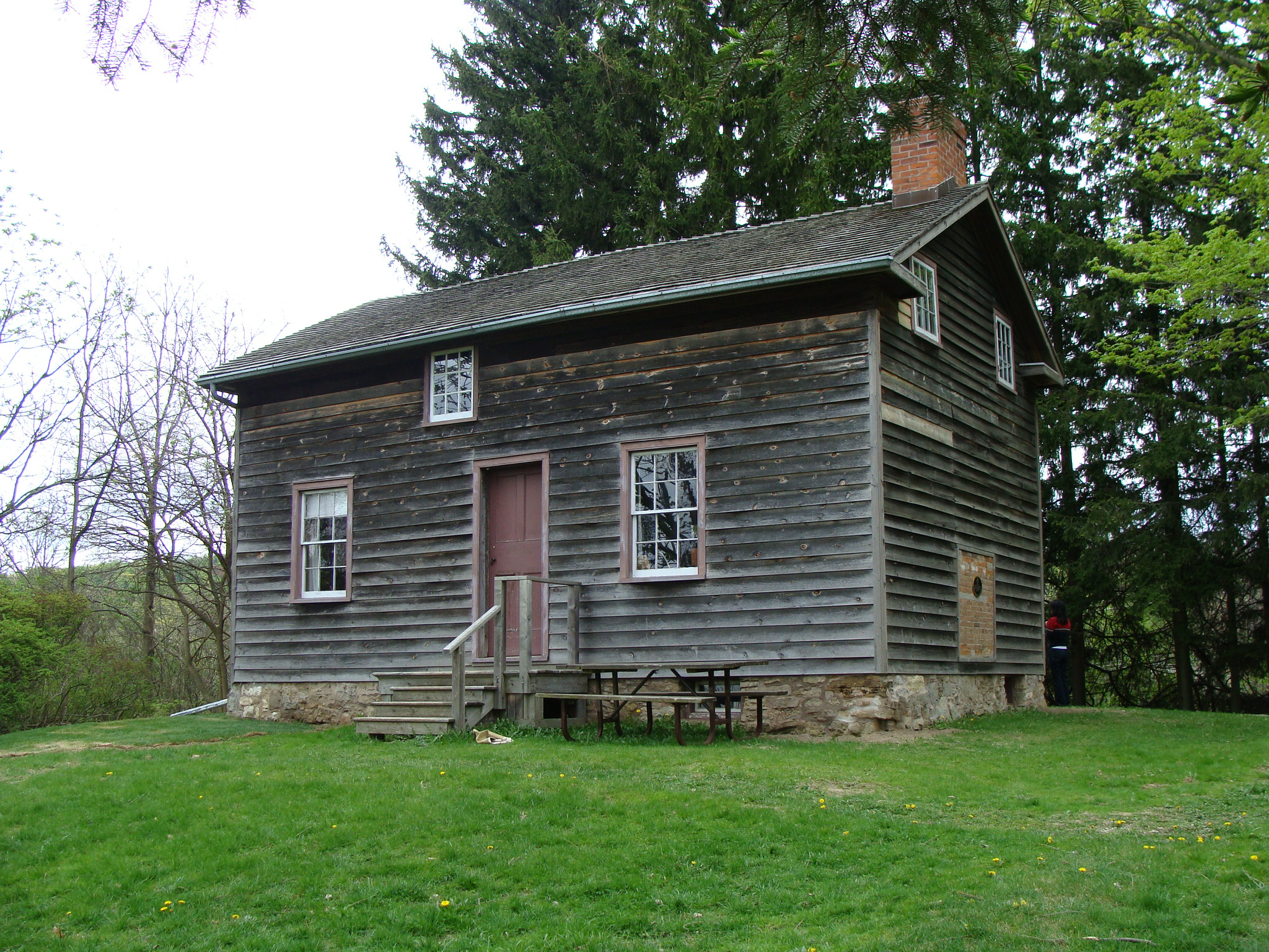 In 1834 this simple clapboard house on a hilltop just west of the Hermitage ruins became the homestead of Enerals Griffin believed to have entered Canada through the Underground Railway. Member of the Black Heritage Network.